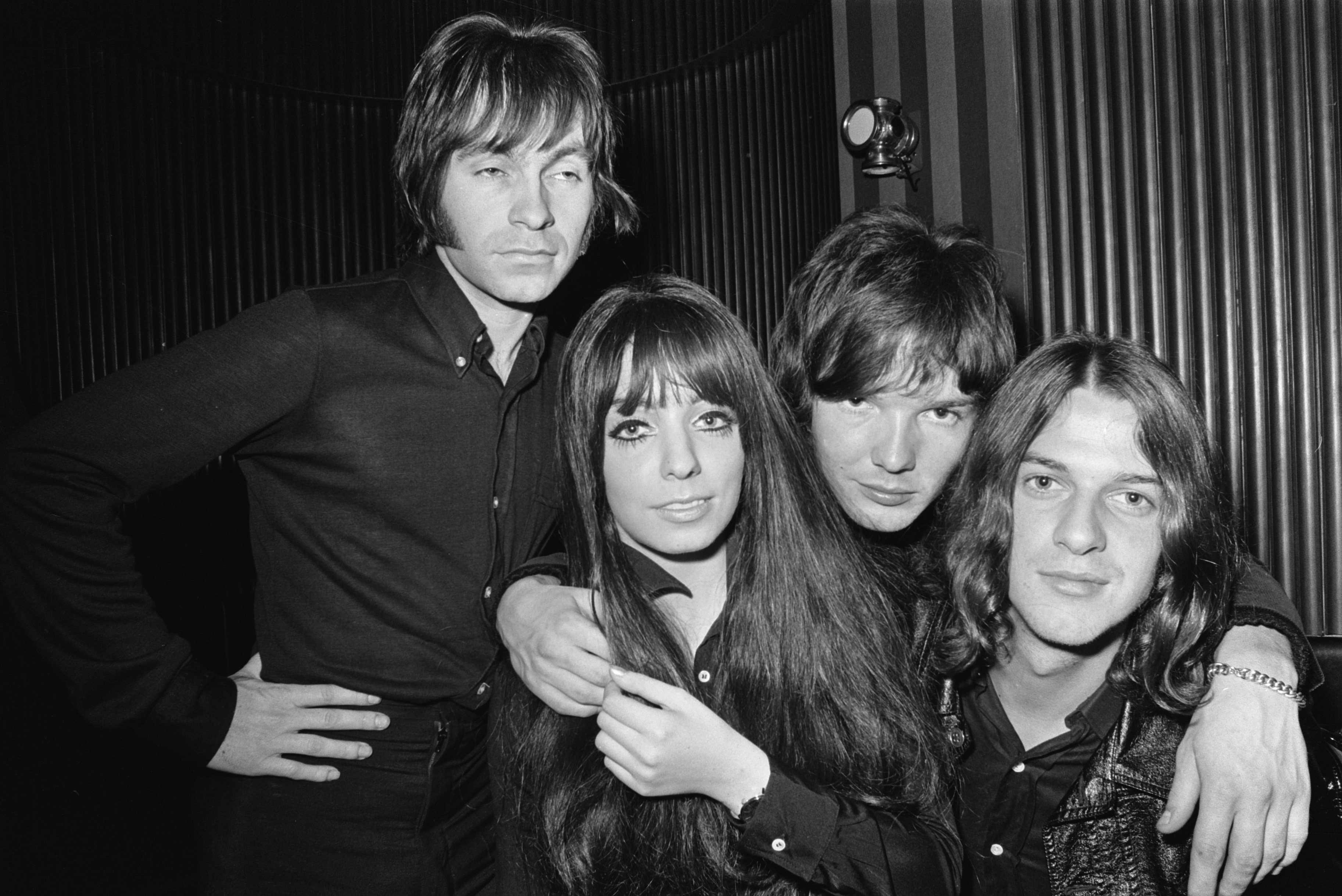 Shocking Blue in 1970